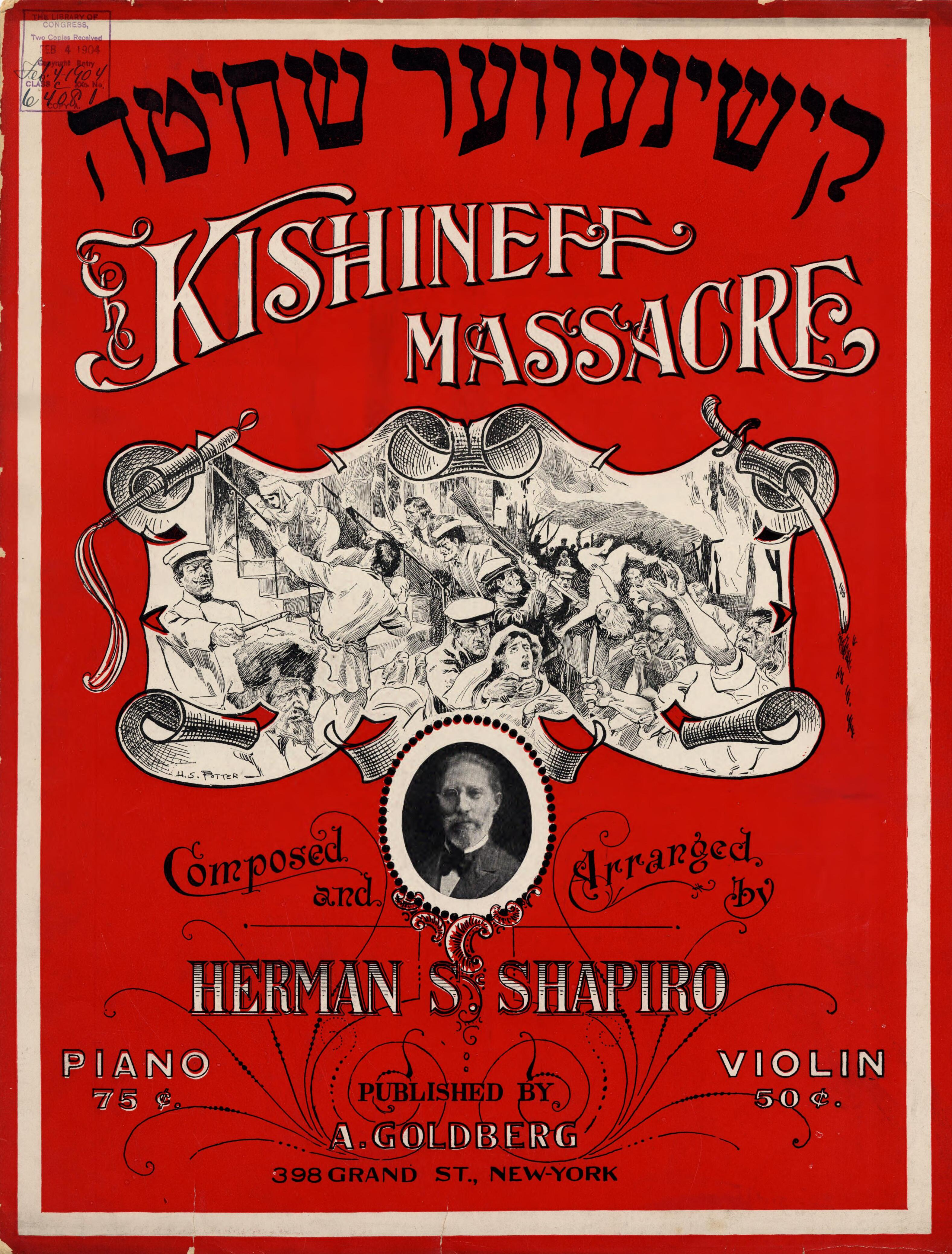 Herman S. Shapiro. "Kishinever shekhita, elegie" [Kishinev Massacre Elegy]. New York: Asna Goldberg, 1904. Irene Heskes Collection. The illustration in the center of this elegy depicts the April 1903 Kishinev massacre.